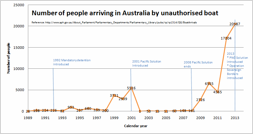 Unauthorised boat arrivals to Australia by calendar year This is entirely my own work based on [1], and I release it for use under the cc-by-sa-3.0 license.